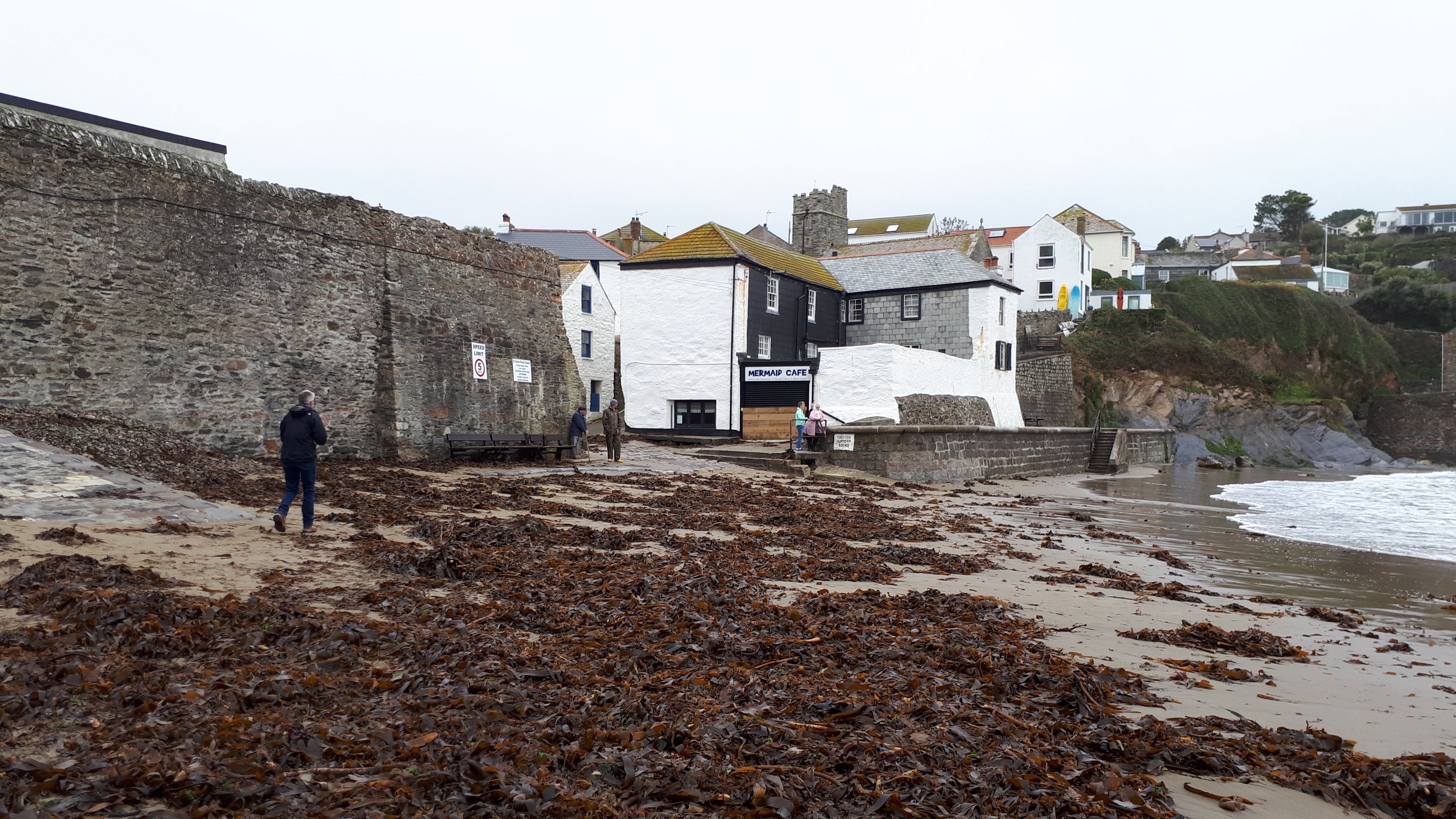 Gorran Haven with seaweed